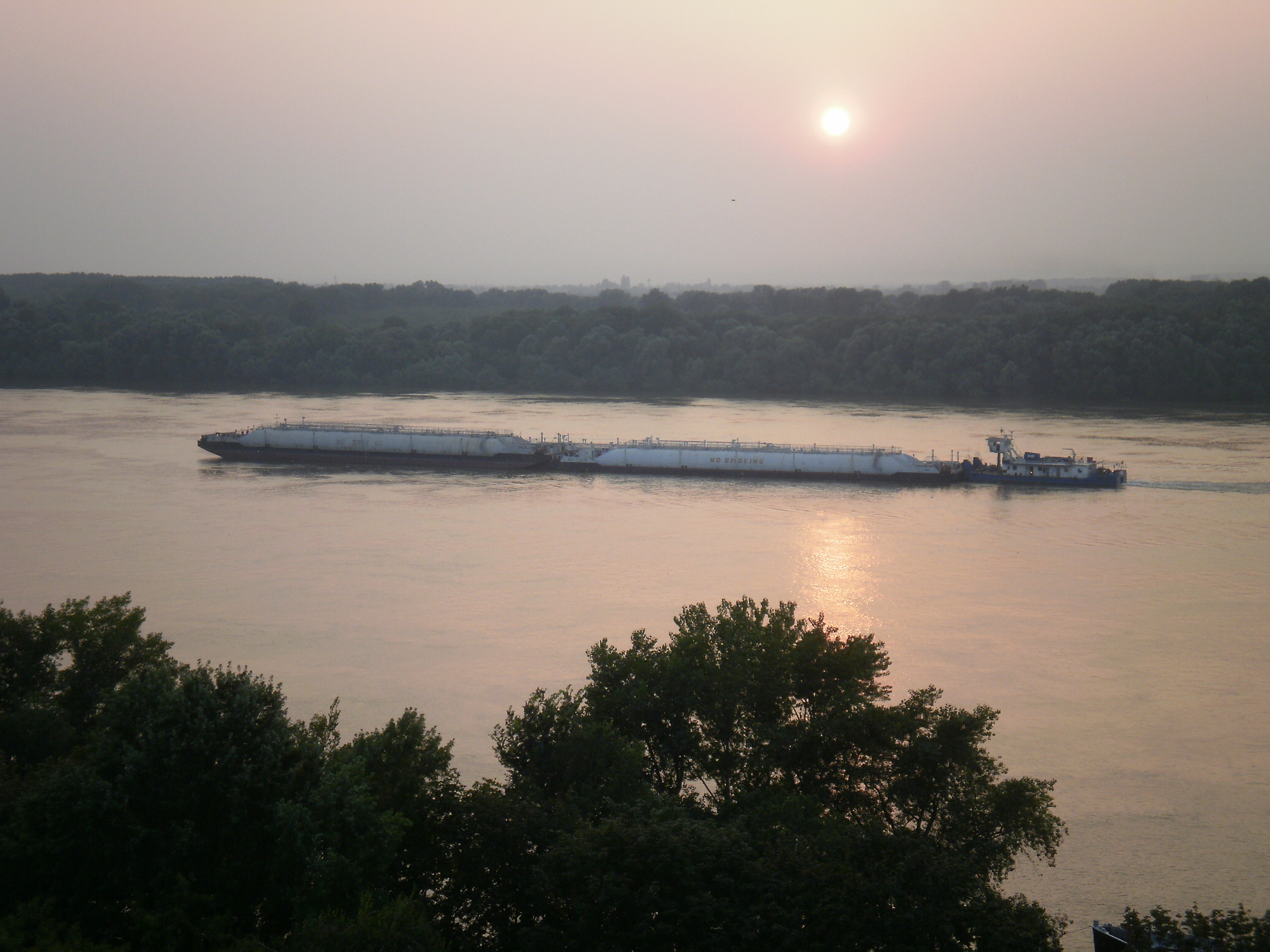 Danube river, Rousse, Bulgaria.